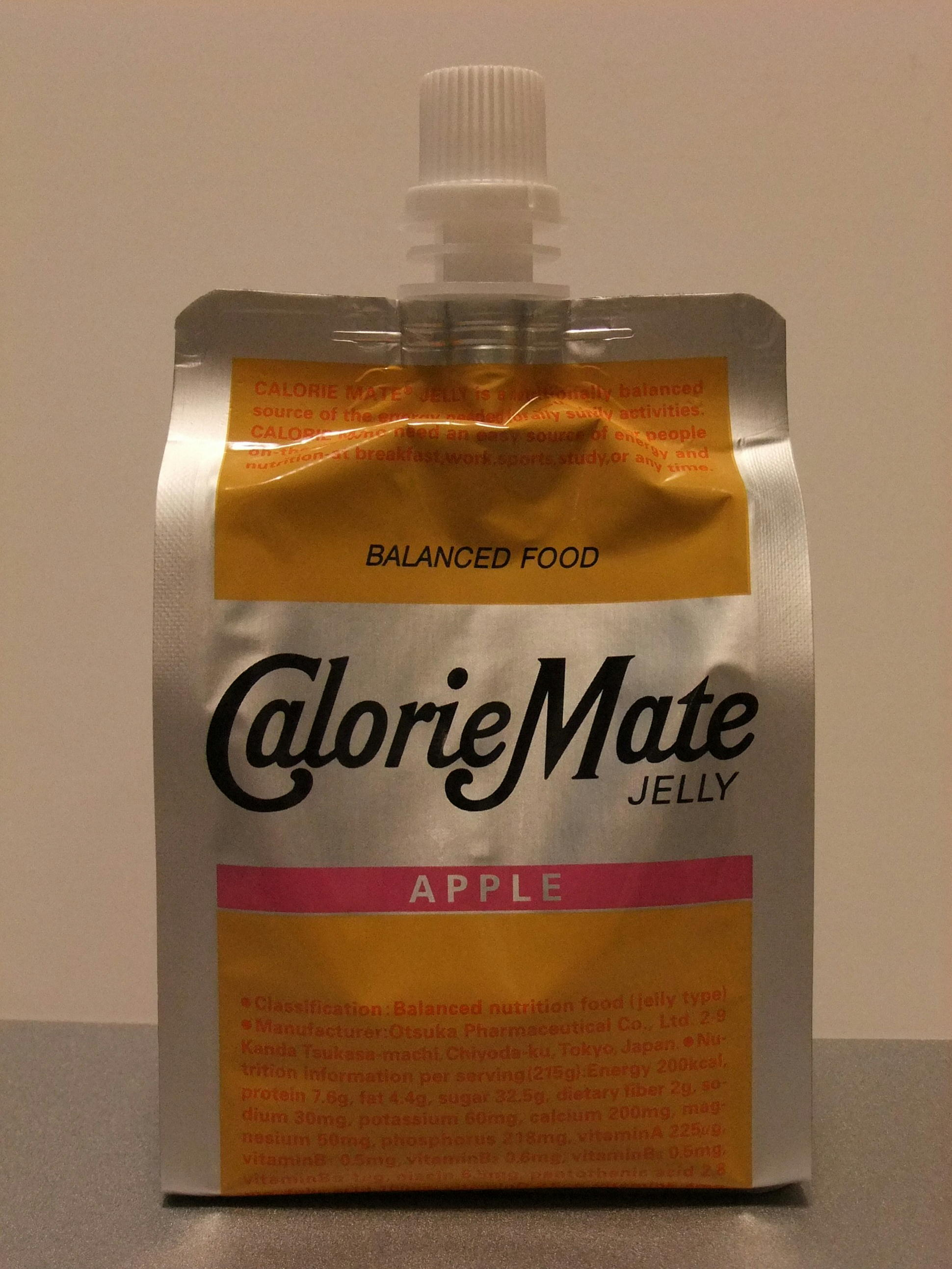 Otsuka Pharmaceutical Co., CalorieMate Jelly, Apple_Flavor